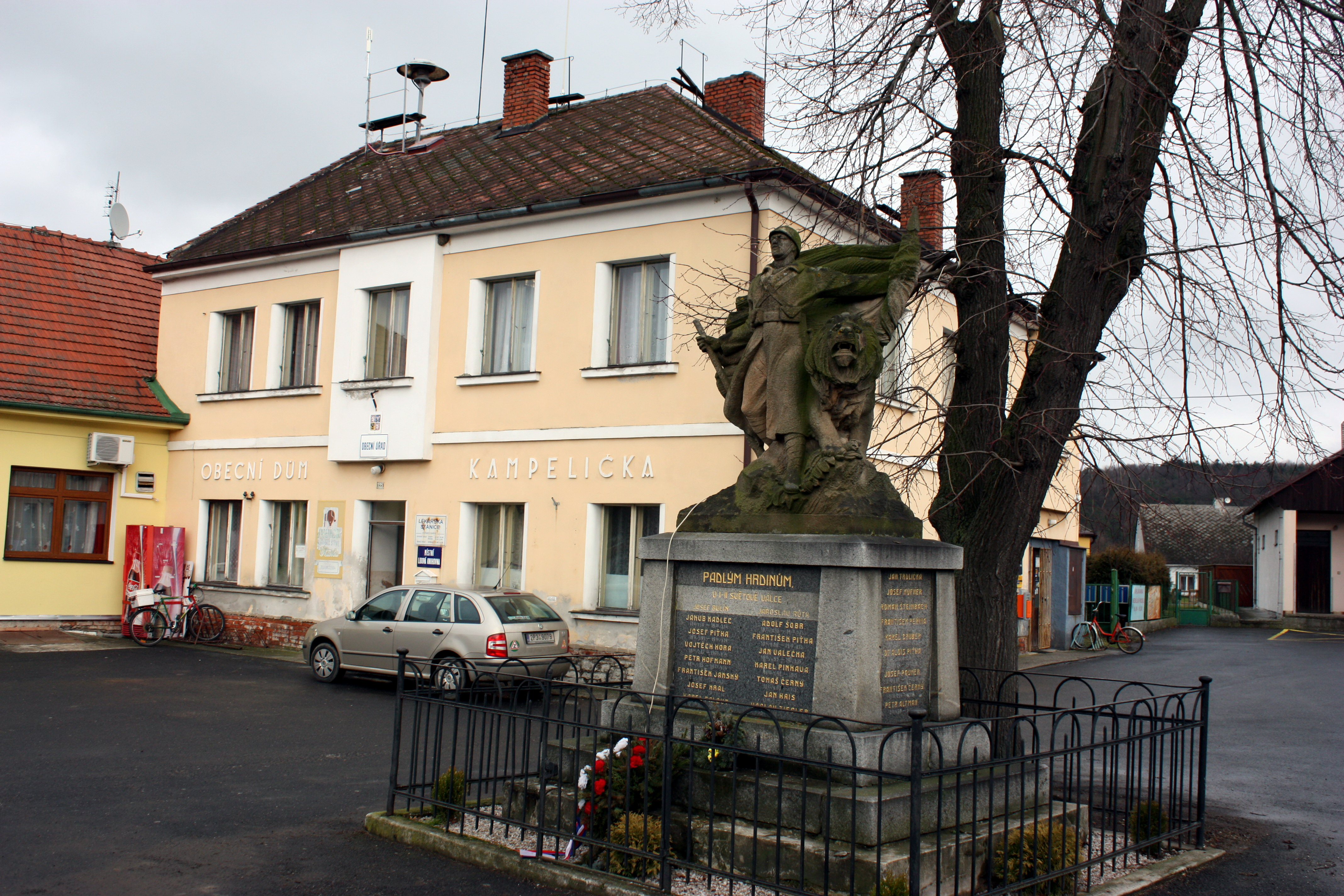 Memorial to victims of WWI and WWII in Dolany, Plzeň Region, Czechia.